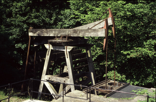 Melingriffith waterwheel powered pump This had been very derelict and required a total rebuild. I don't much like the machine cut wood though.